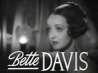 Cropped screenshot of Bette Davis from the trailer for the film All This, and Heaven Too.